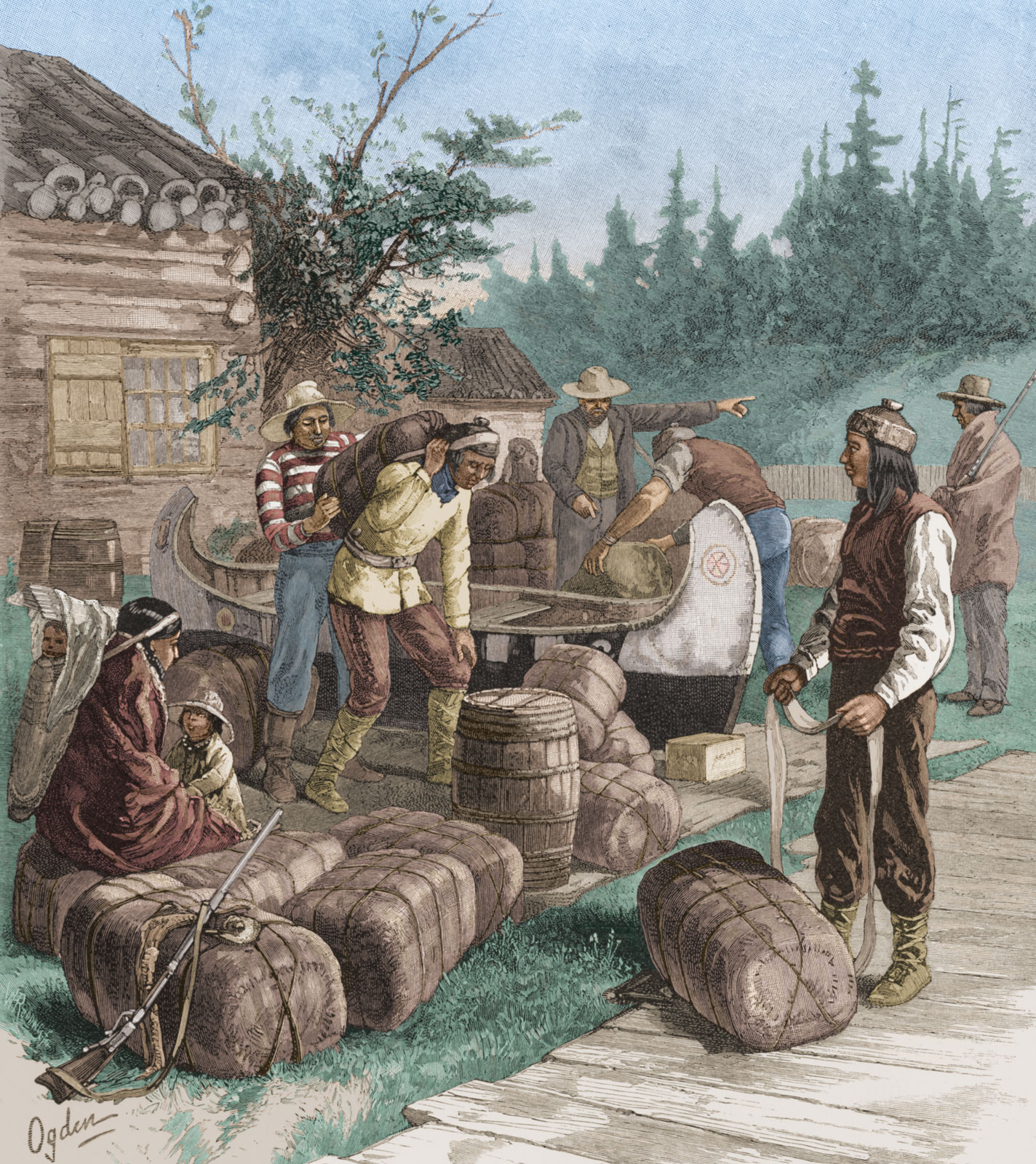 Indians trade 90-lb packs of furs at a Hudson's Bay Company trading post in the 1800's.